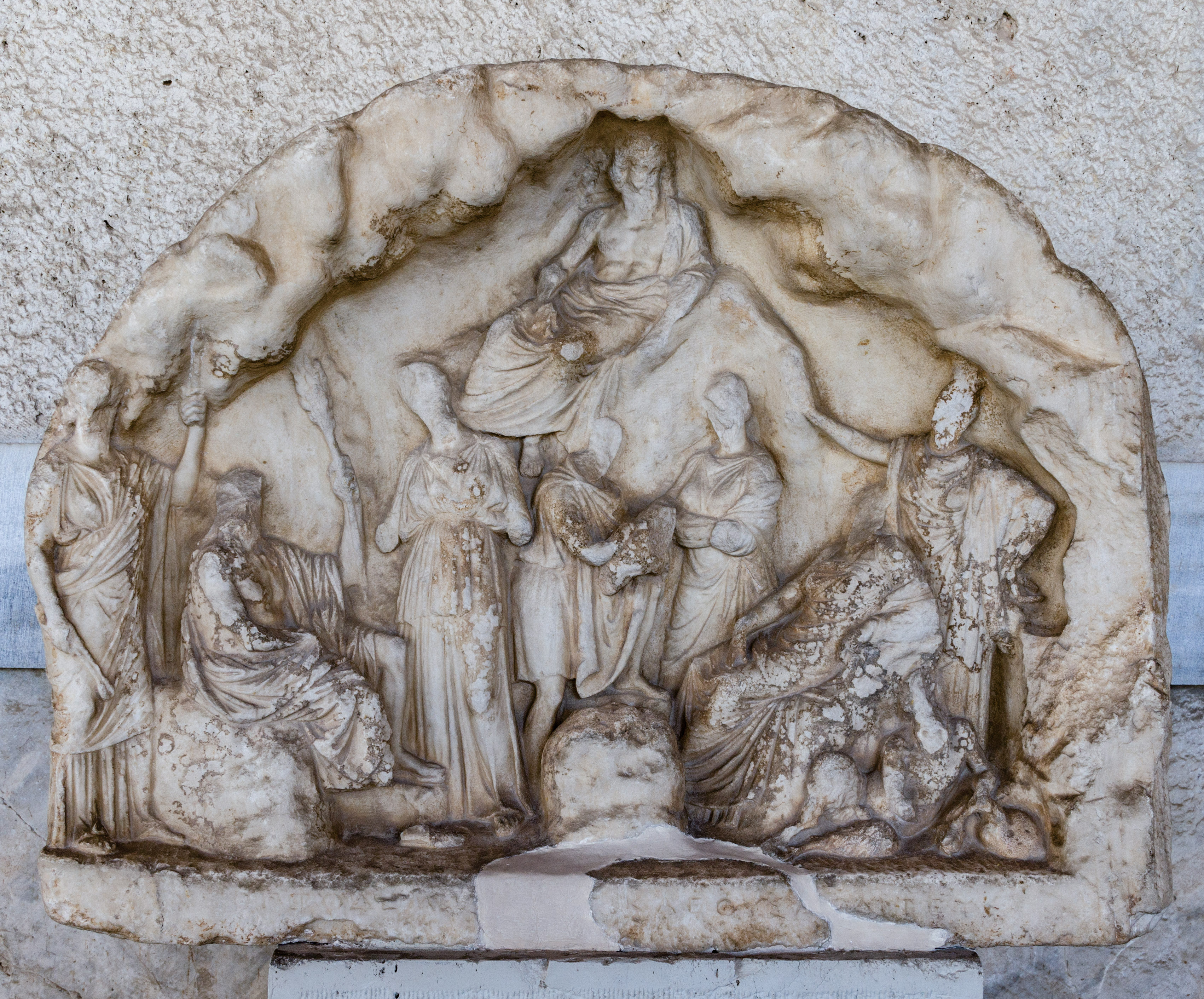 Sculpture of Pan and Nymphs. Votive relief dedicated by Neoptolemos of Melite, ca. 330 BC. Exhibited along the portico of the Stoa of Attalus, which houses the Ancient Agora Museum in Athens. Museum of the Ancient Agora (Inventory)Native nameΜουσείο Αρχαίας Αγοράς ΑθηνώνLocationAthensCoordinates37° 58′ 30.3″ N, 23° 43′ 27.2″ E Established1957 Web pageodysseus.culture.grAuthority control : Q2383284 VIAF: 149504649 ULAN: 500306464 LCCN: no2013060376 GND: 1086308700 NLI: 004252421 WorldCat institution QS:P195,Q2383284